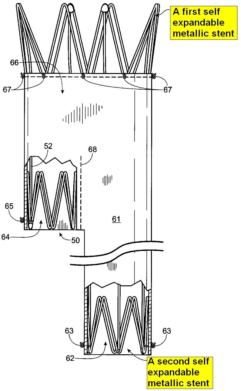 Image of a low profile stent graft for treatment of vascular abnormalities such as aneurysms, where the endoskeleton of the stent graft utilizes first and second self expandable metallic stent (SEMS), from United States Patent 6,319,278 issued on November 20, 2001 to Stephen F. Quinn of Eugene.